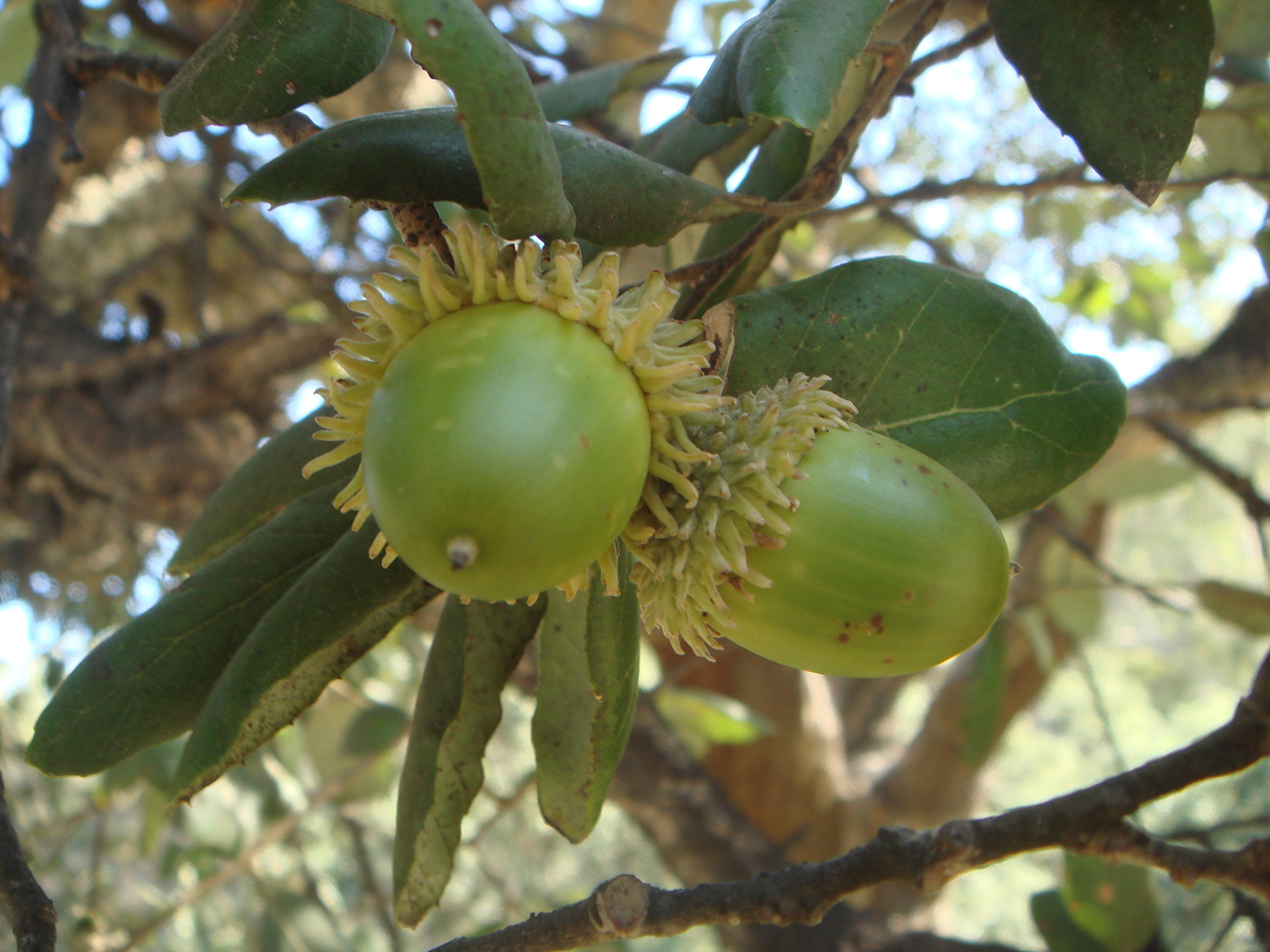 Acorns of Cork oak Quercus suber, Ceuta, Spain.